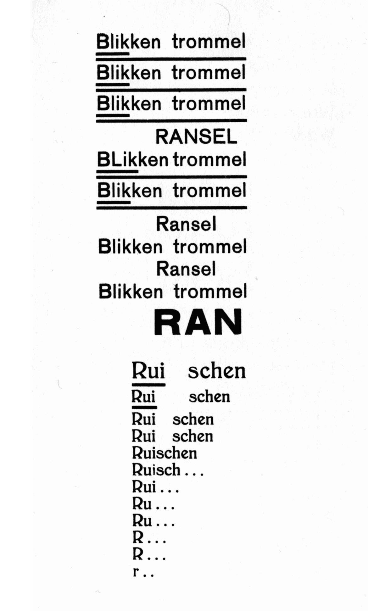 Voorbijtrekkende troep [2].